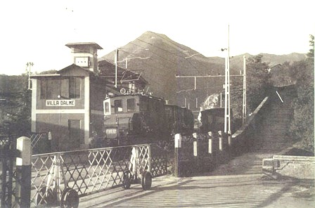 Villa d'Almè railway station